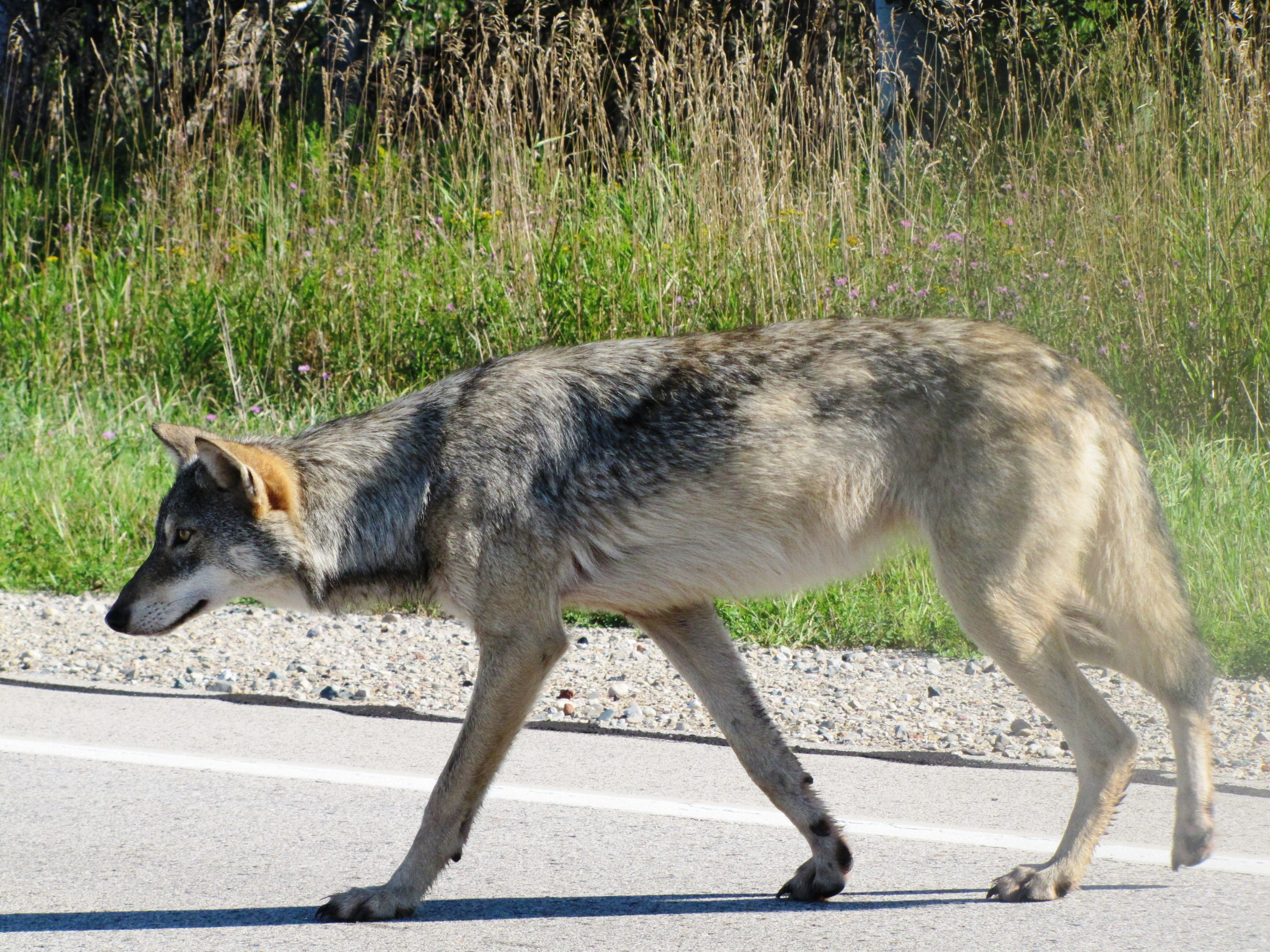 gray wolf (Canis lupus)